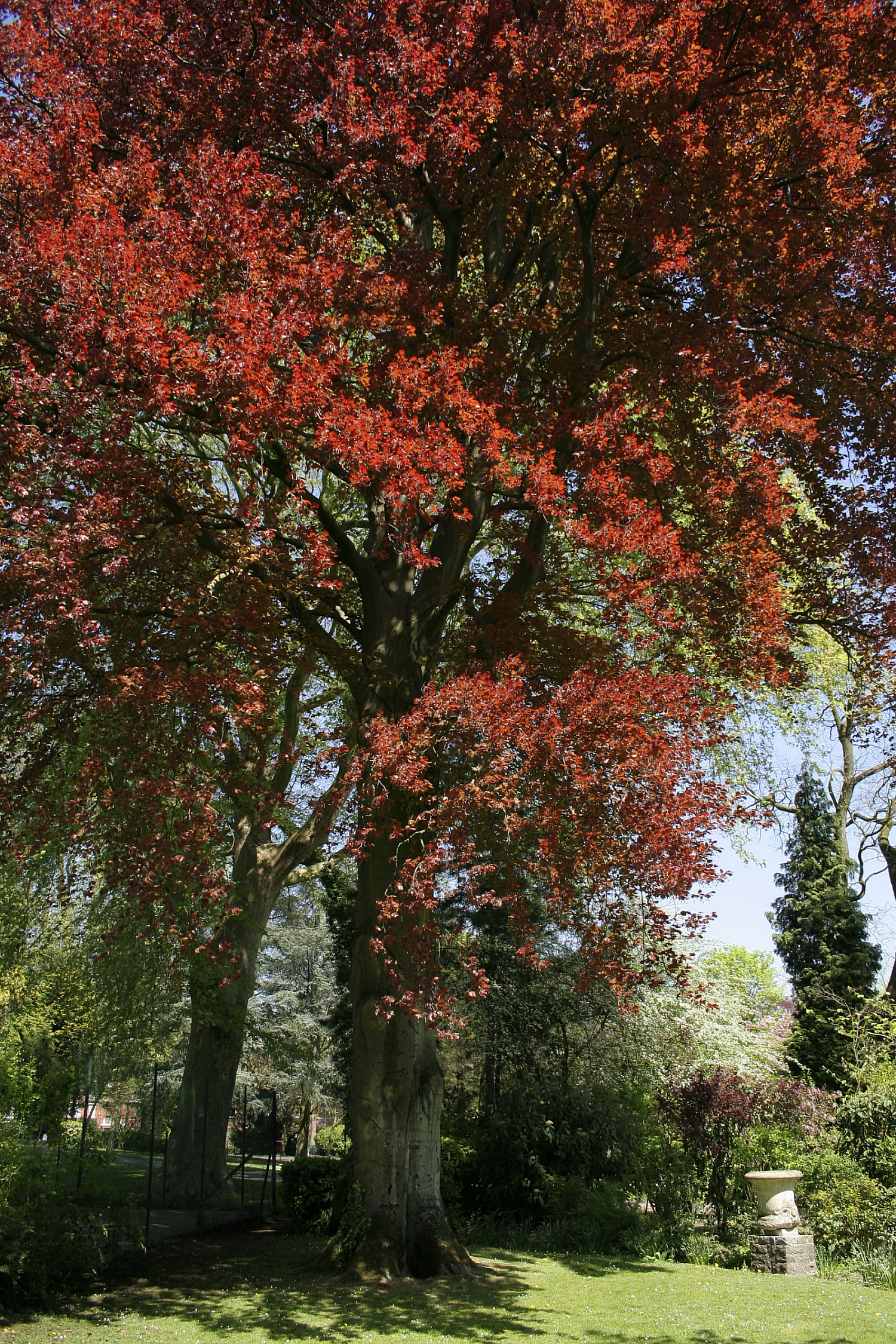 Copper Beech or Purple beech.